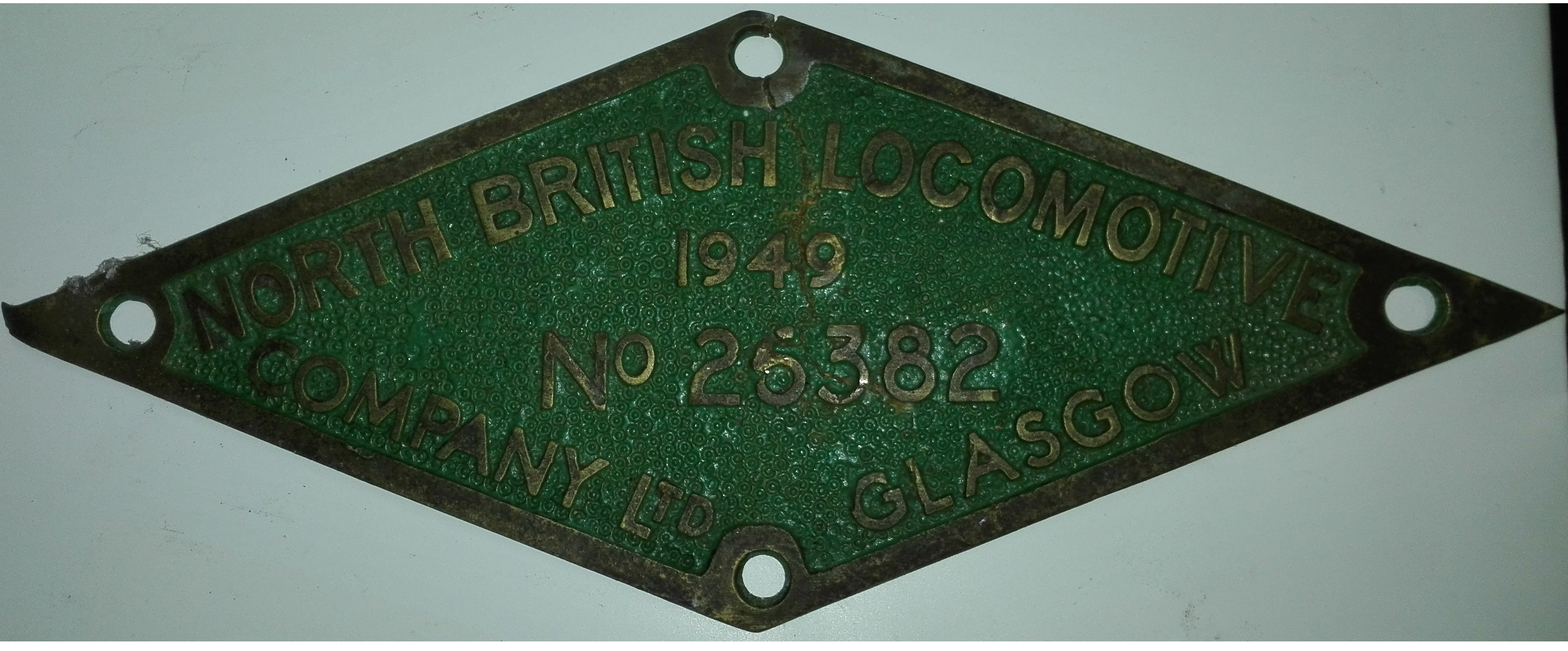 24 3700 (Builders Plate)